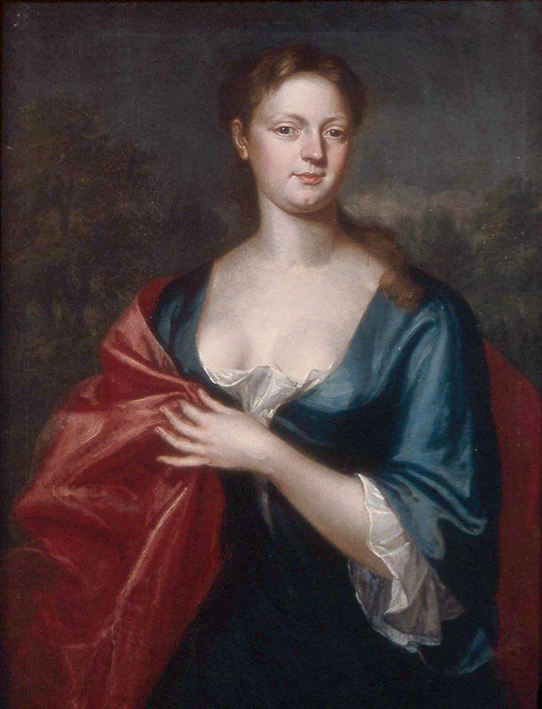 Portrait of Elizabeth Davenport. (Mrs. William Dudley). By John Smibert.